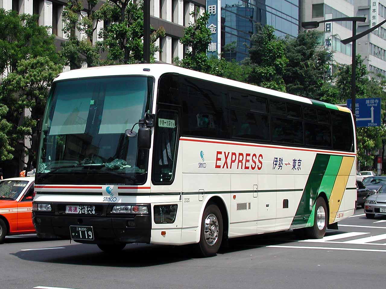 Mie Kotsu Inter-city express Tokyo and Ise route. Model: Mitsubishi Fuso Aero Queen I (KL-MS86MP) License plate: MEM200 KA-119（三重200か・119） Place: Higashi-Ikebukuro, Toshima ward, Tokyo Japan